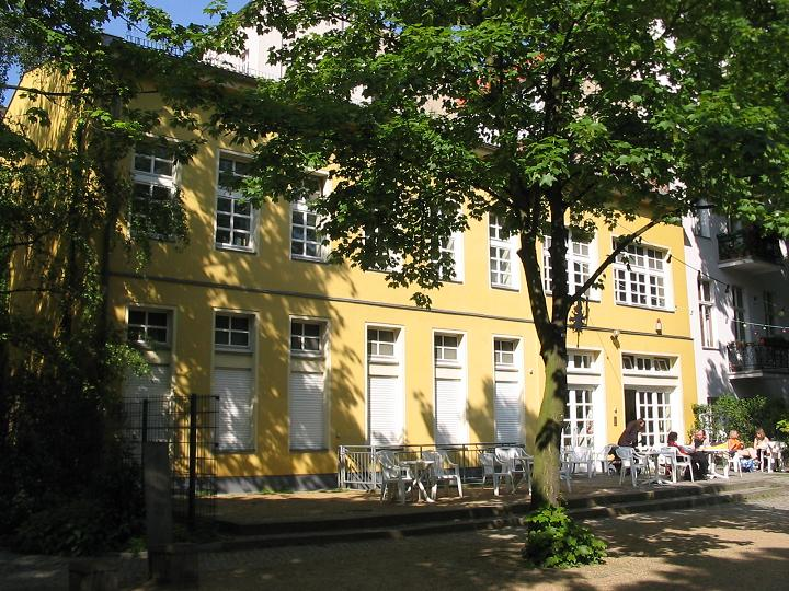 Winterfeldtplatz (place) in Berlin-Schöneberg, Germany. Puppet theater „Hans Wurst Nachfahren“